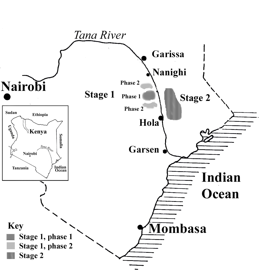 This file shows the location of the stages and phases of Bura Irrigation and Settlement Project.